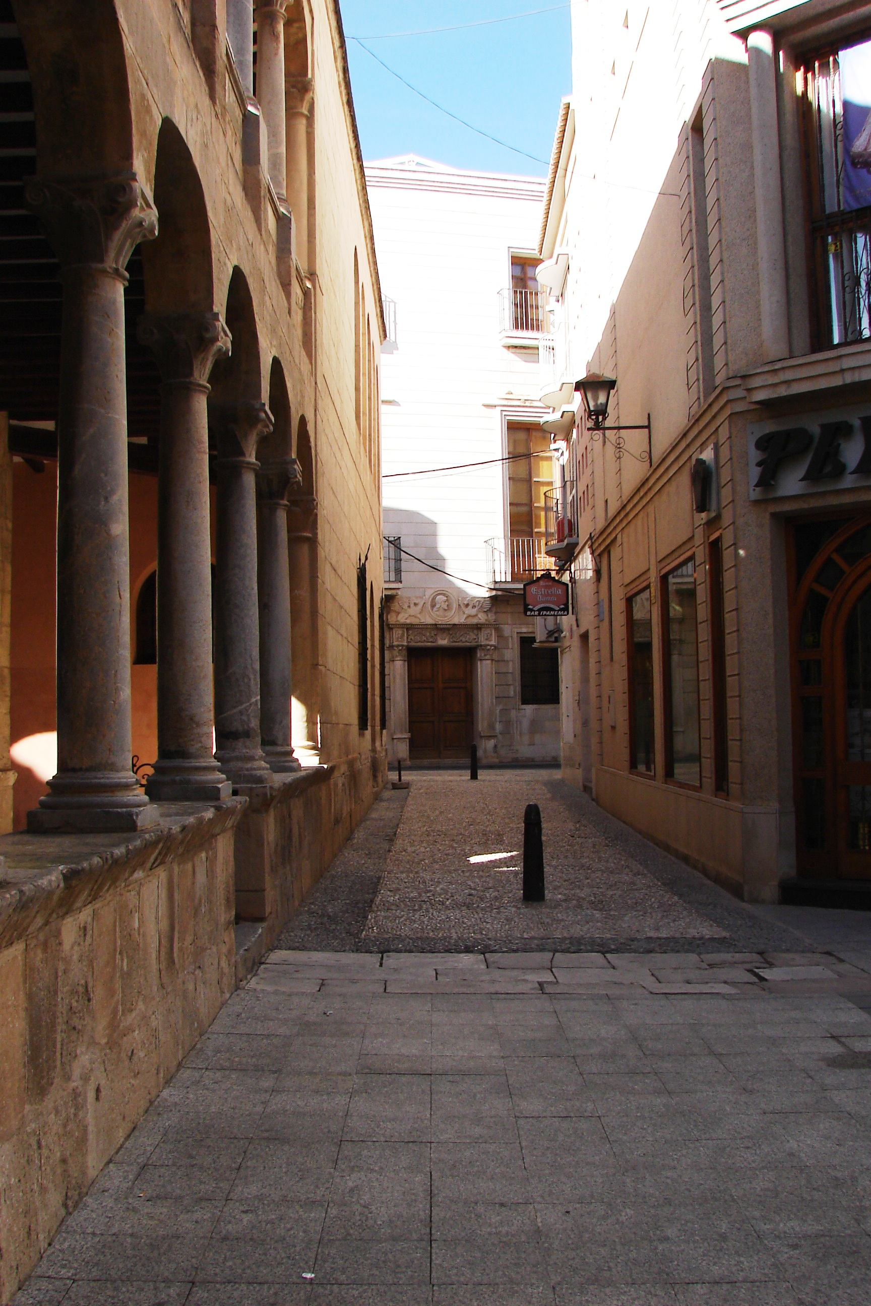 Image of the City of Orihuela in Alicante, Spain